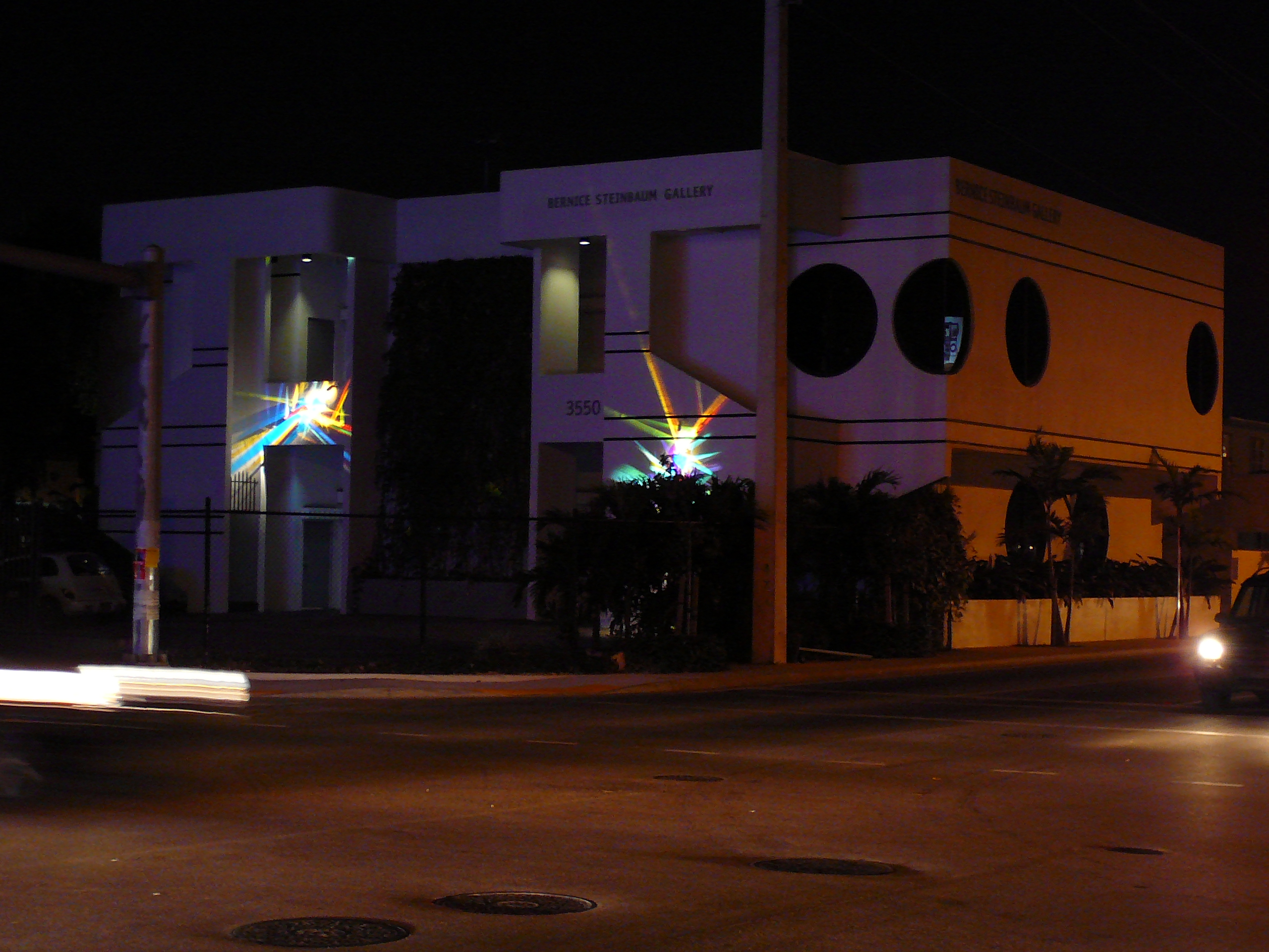 Digital photo taken by Marc Averette. Gallery in the Wynwood Art District of Miami 12/6/2008.